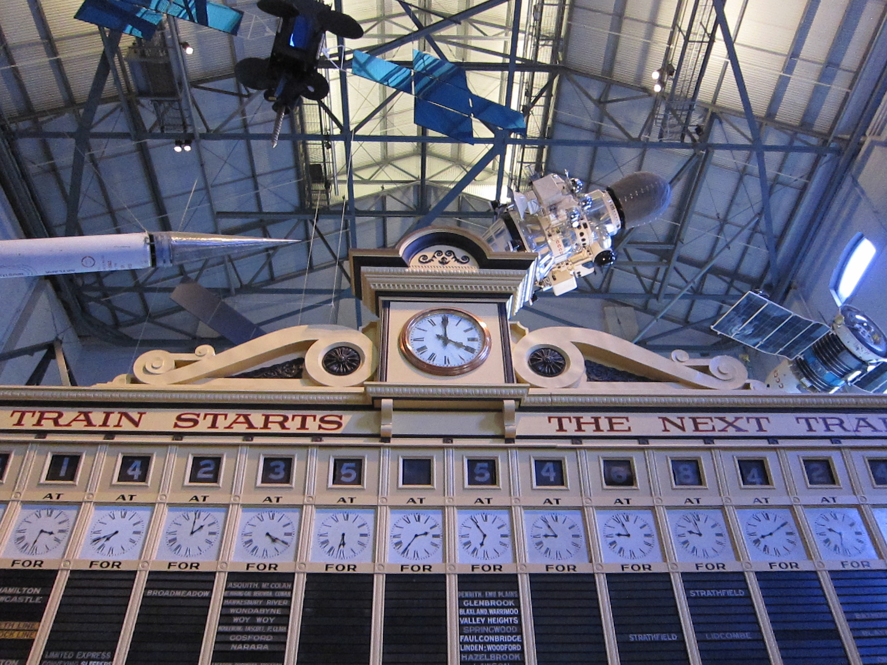 Sydney's Powerhouse Museum is located in a former electric tram power station. It features interesting science & design exhibits.